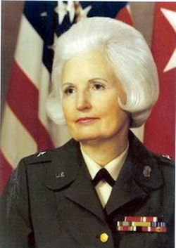 Mildred Inez C. Bailey (18 April 1919 – 18 July 2009) was an United States Army officer, who served as director of the Women's Army Corps from August 1971 until July 1975 with the rank of Brigadier General.